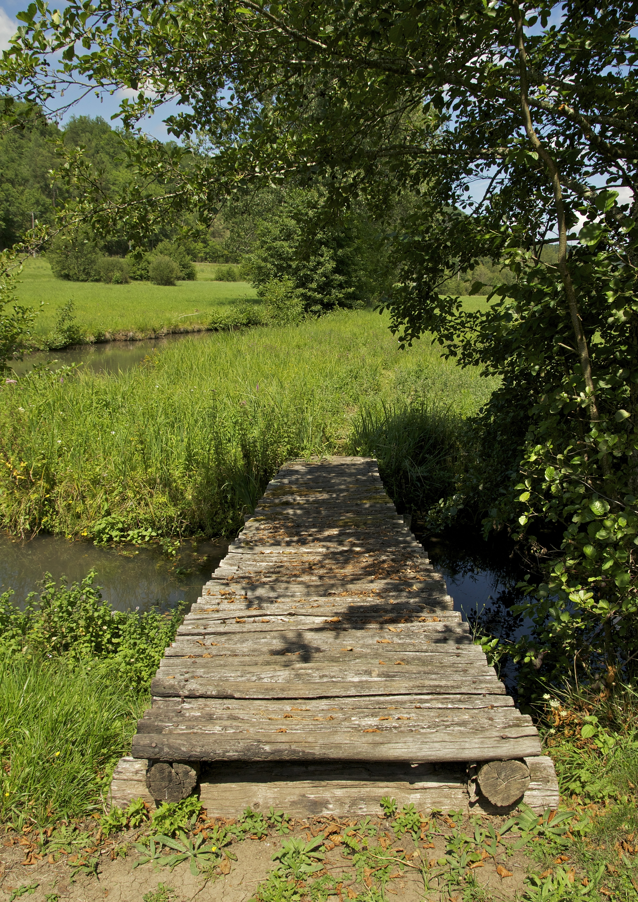 A footbridge over a stream in Dordogne, France